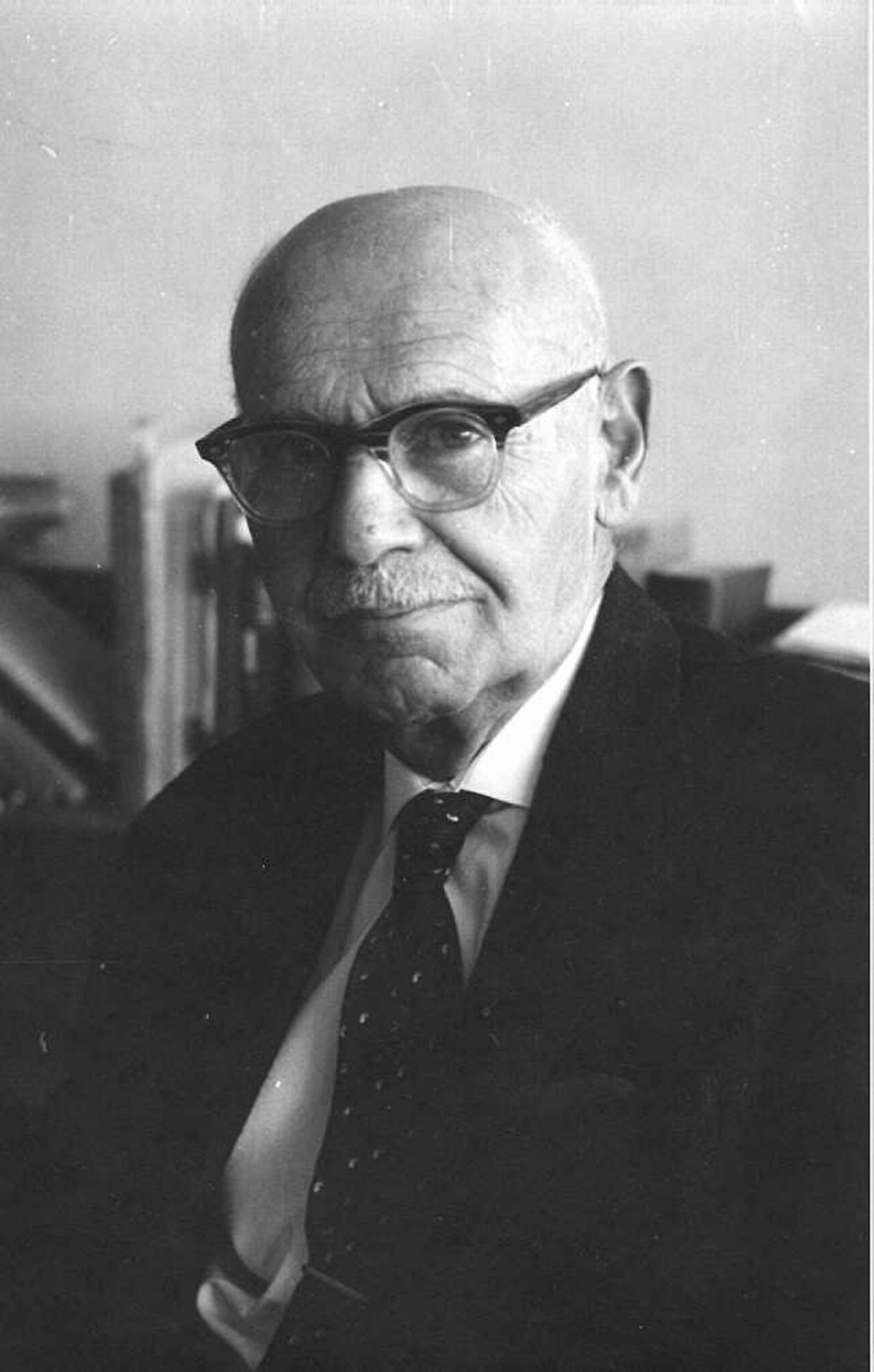 Felix Weltsch, German-speaking Jewish librarian, philosopher, author, editor, publisher, journalist and Zionist leader in Bohemia